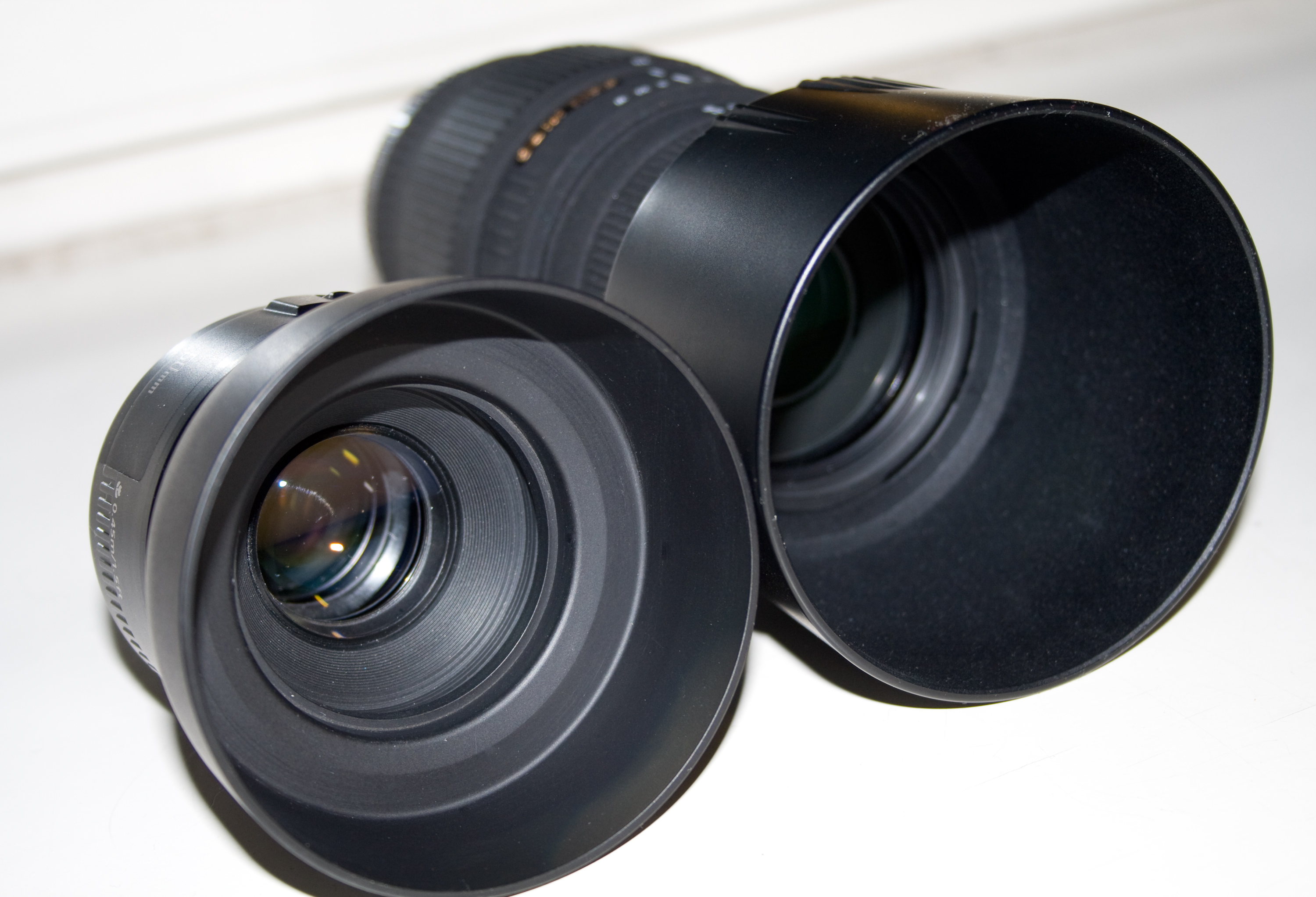 Canon EF 50mm/1,8 II (left) and Sigma AF70-300mm f/4-5.6 APO MACRO (right) photographic lens with lens hoods.